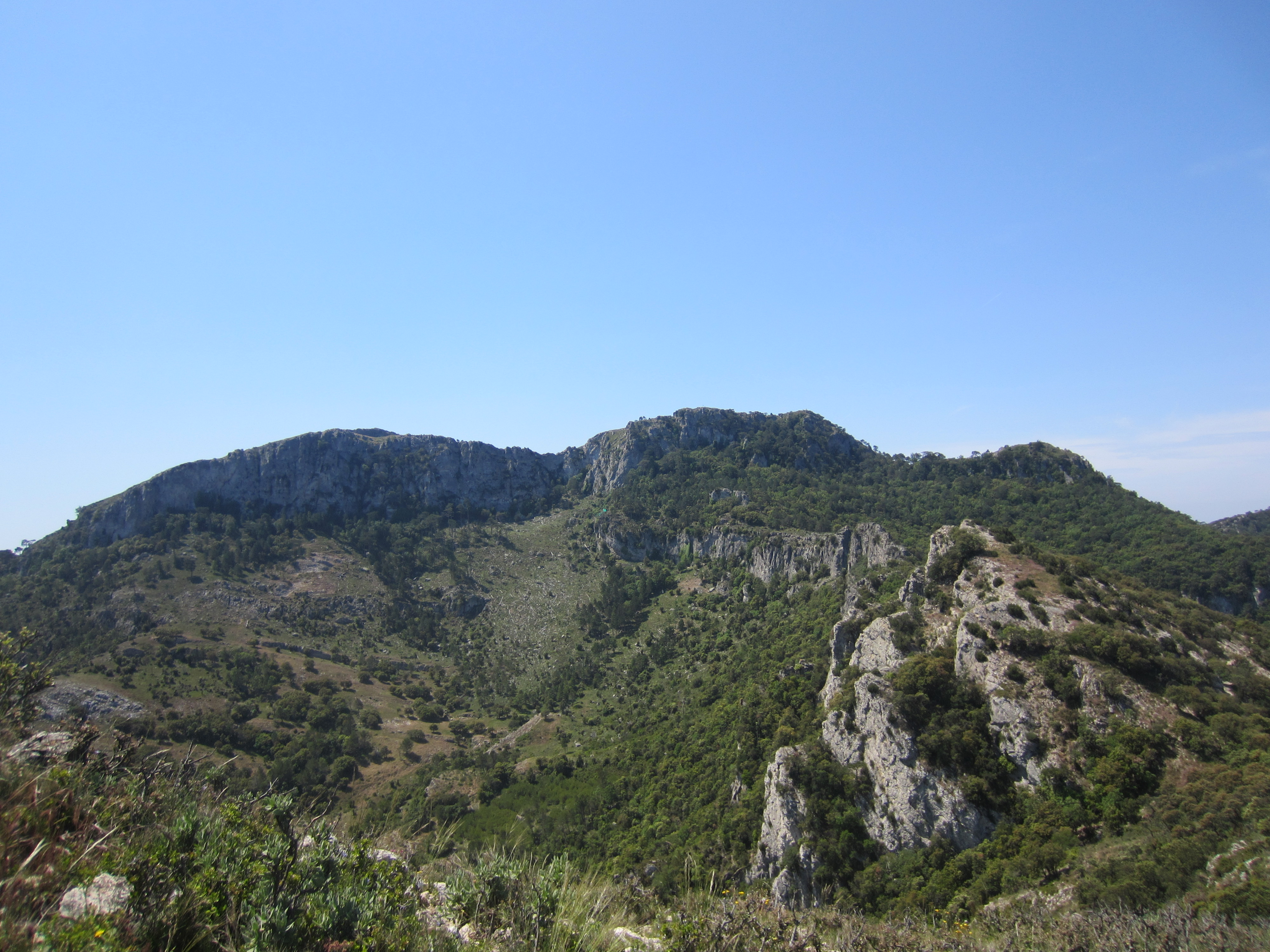 Creu de Santos seen from the ridge of Portell del Bou